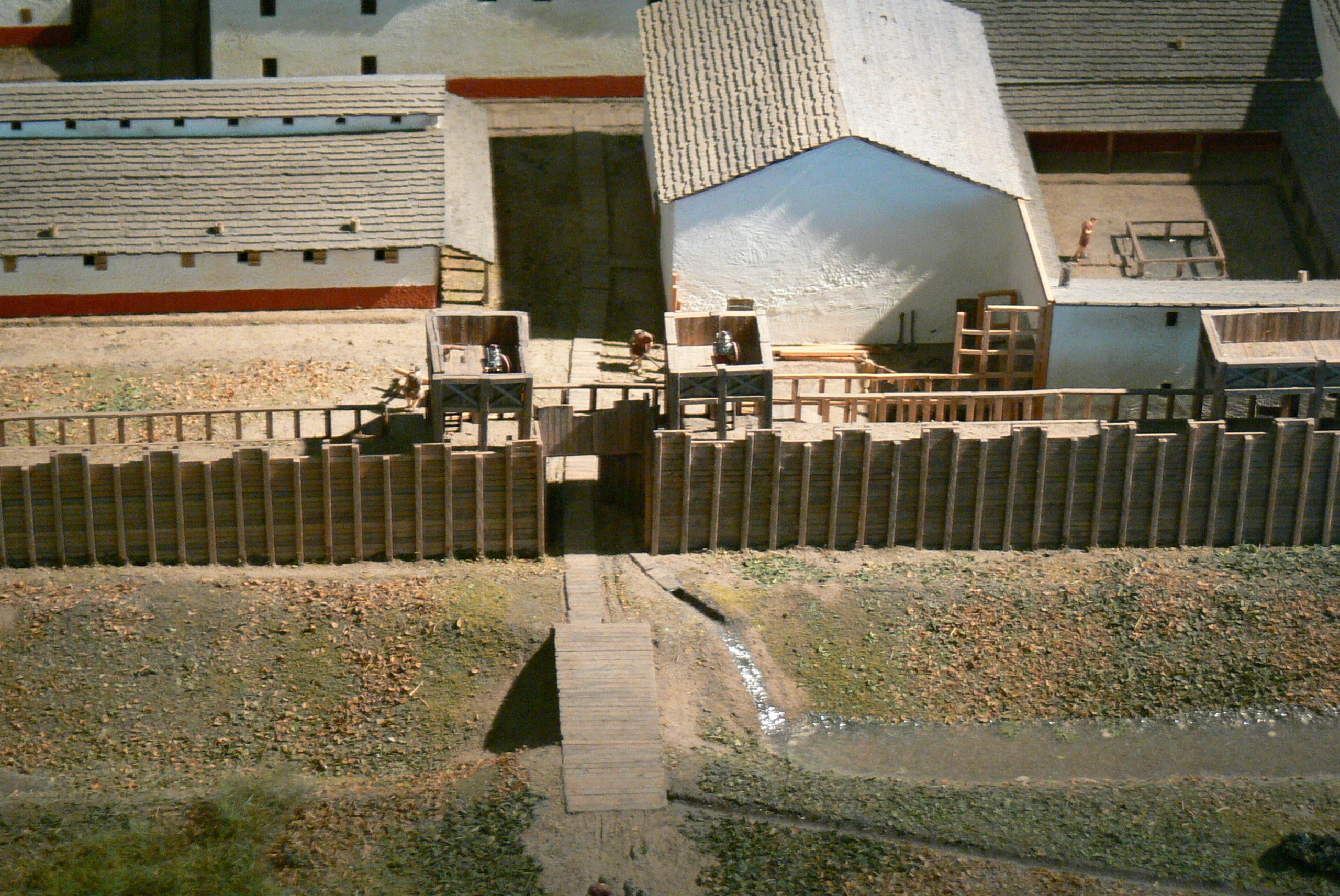 Celtic Museum Manching ( Bavaria ). Modell of the ancient Roman fortification ( 50s AD ) at Oberstimm - gate.